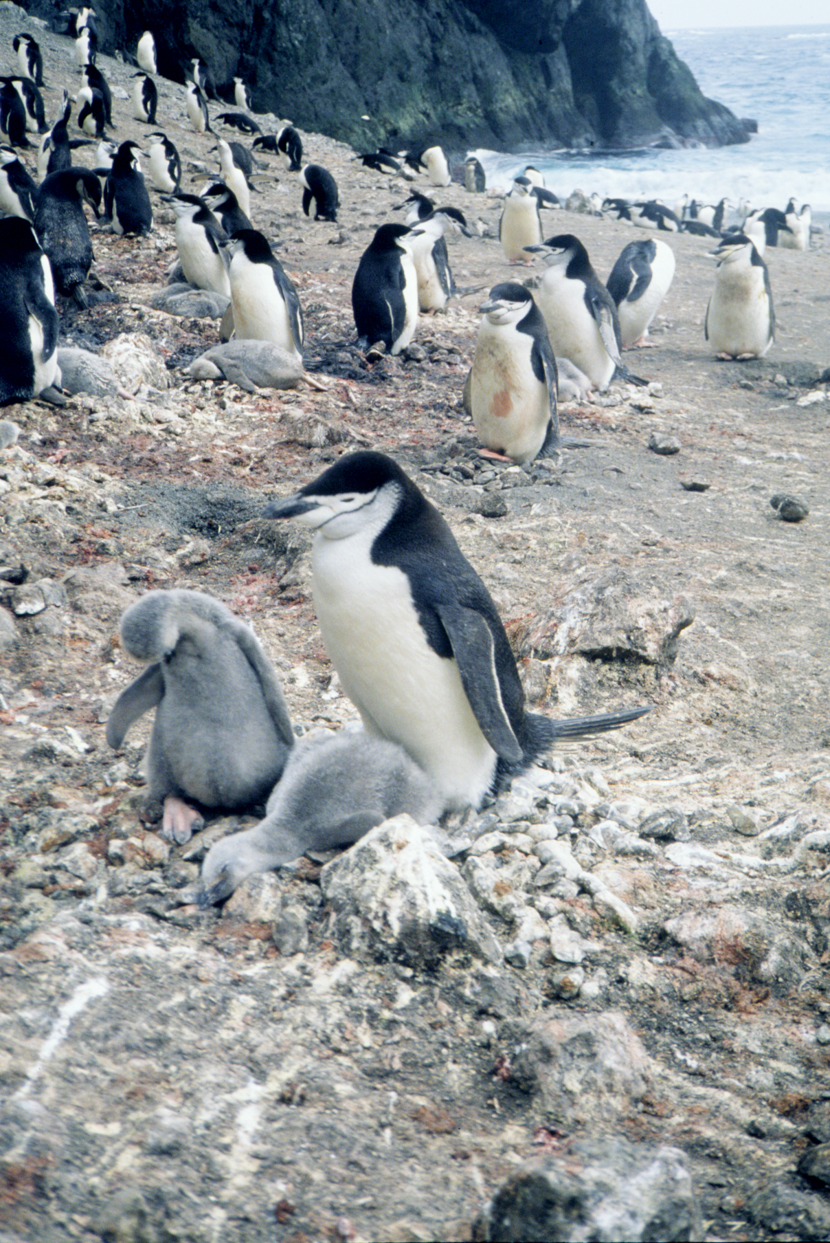 Chinstrap penguin and chicks, Seal Island